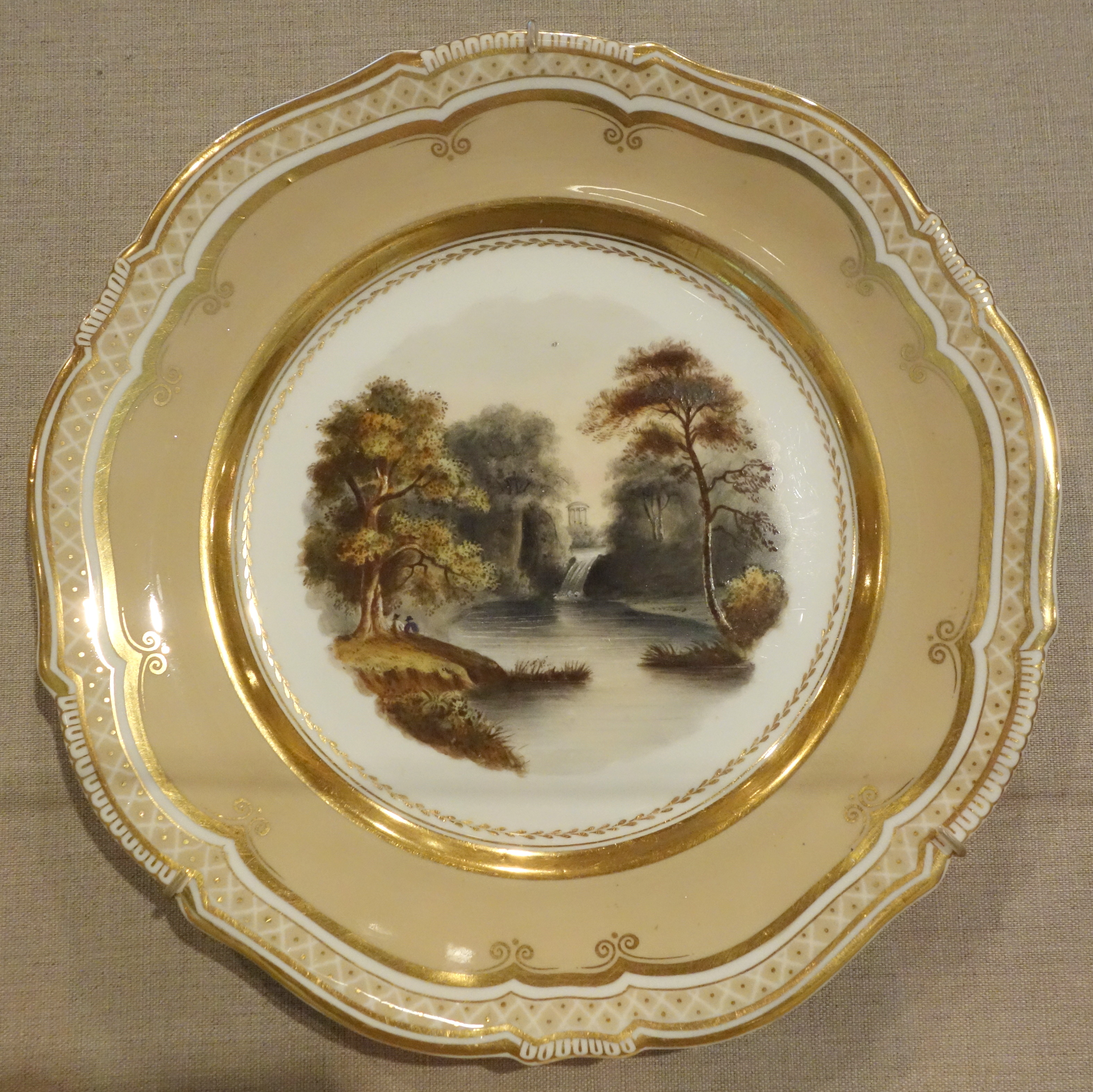 Exhibit in the De Young Museum, San Francisco, California, USA. This artwork is in the public domain because the artist died more than 70 years ago.